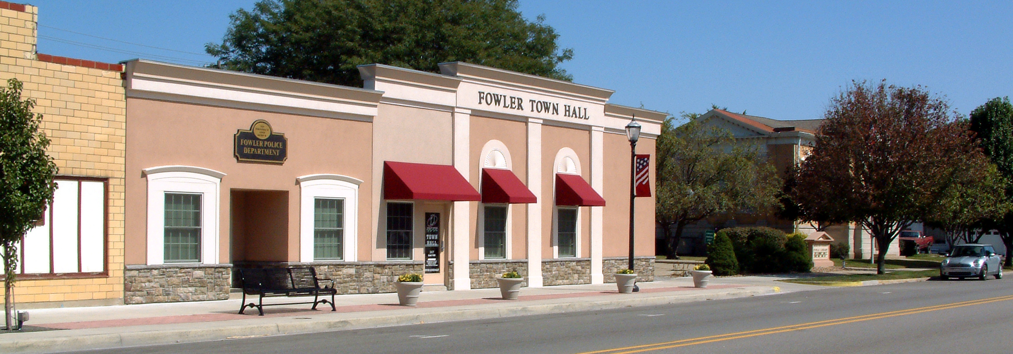 A photo taken on Fifth Street in Fowler, Indiana, looking northeast toward the police department building and the town hall. At right, partly obscured by trees, is the public library.